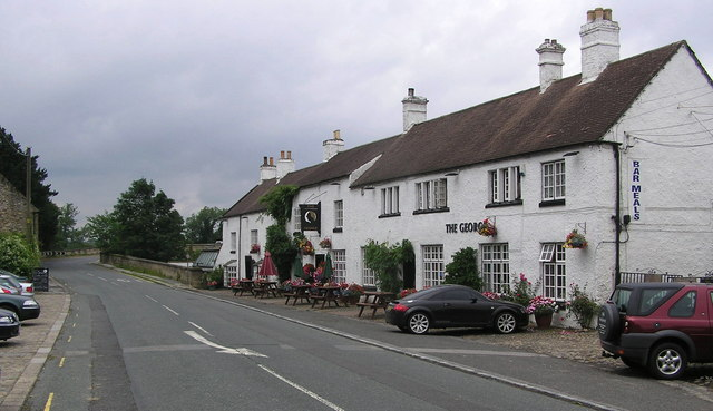 Source description says: "The George Hotel : Piercebridge. 16th century coaching inn, on the south bank of the River Tees. The George is home to the famous grandfather clock, which inspired the 1780s song 'My Grandfather's clock'. The three arched bridge dates from 1789." The George Hotel is actually in Cliffe, Richmondshire.